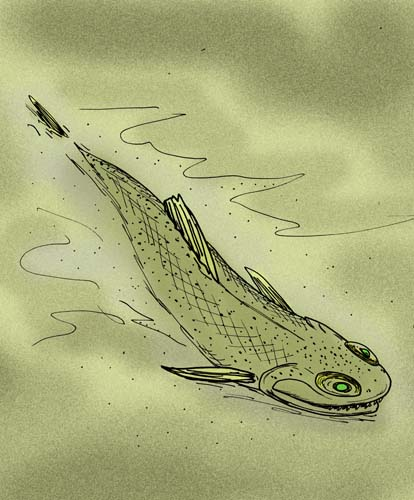 Reconstruction of the extinct lizardfish, Argillichthys toombsi, of the Ypresian-aged London Clay, of Middle Eocene England